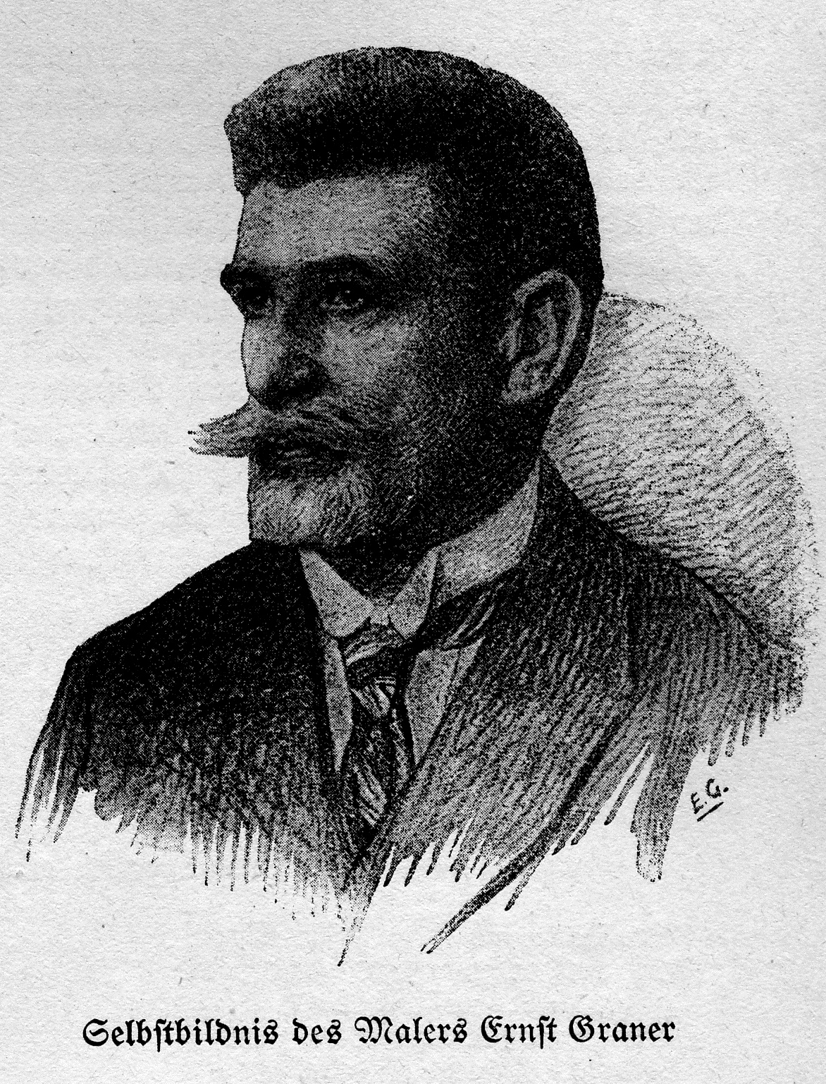 Ernst Graner